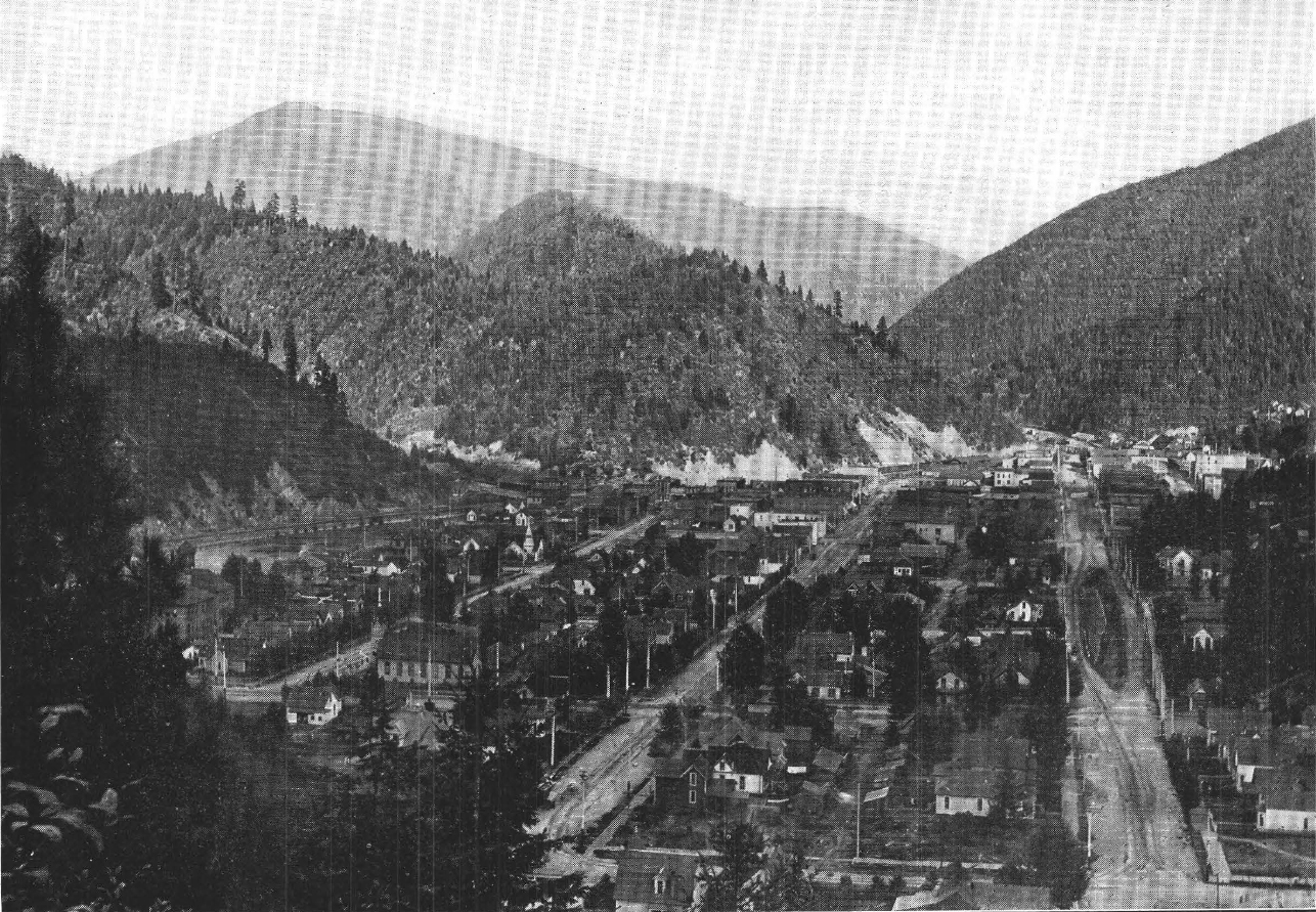 1904 Wallace Idaho